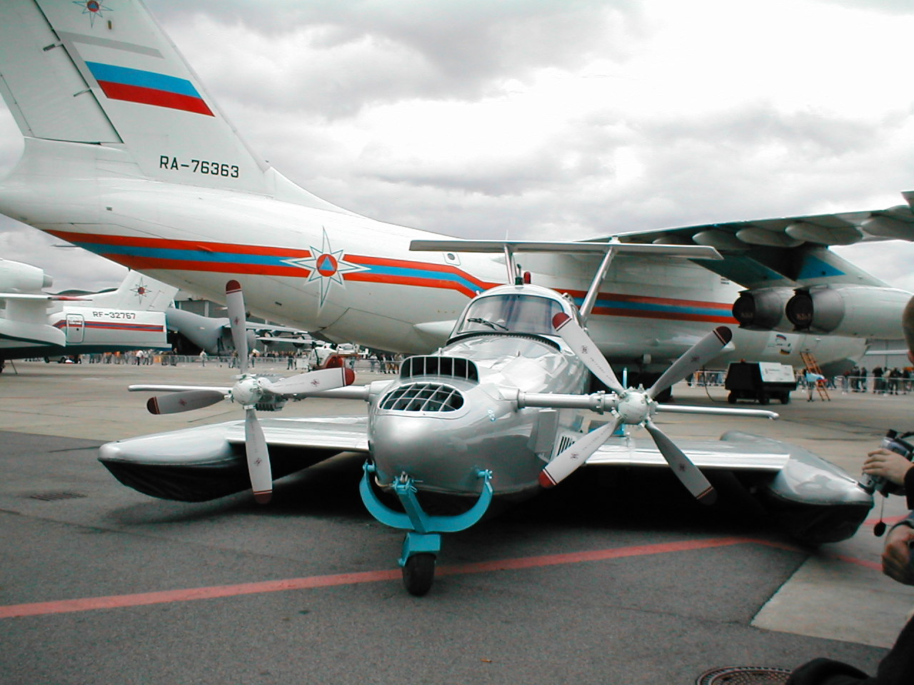 Russian ekranoplan “Aquaglide 2” at Berlin Air Show ILA2006